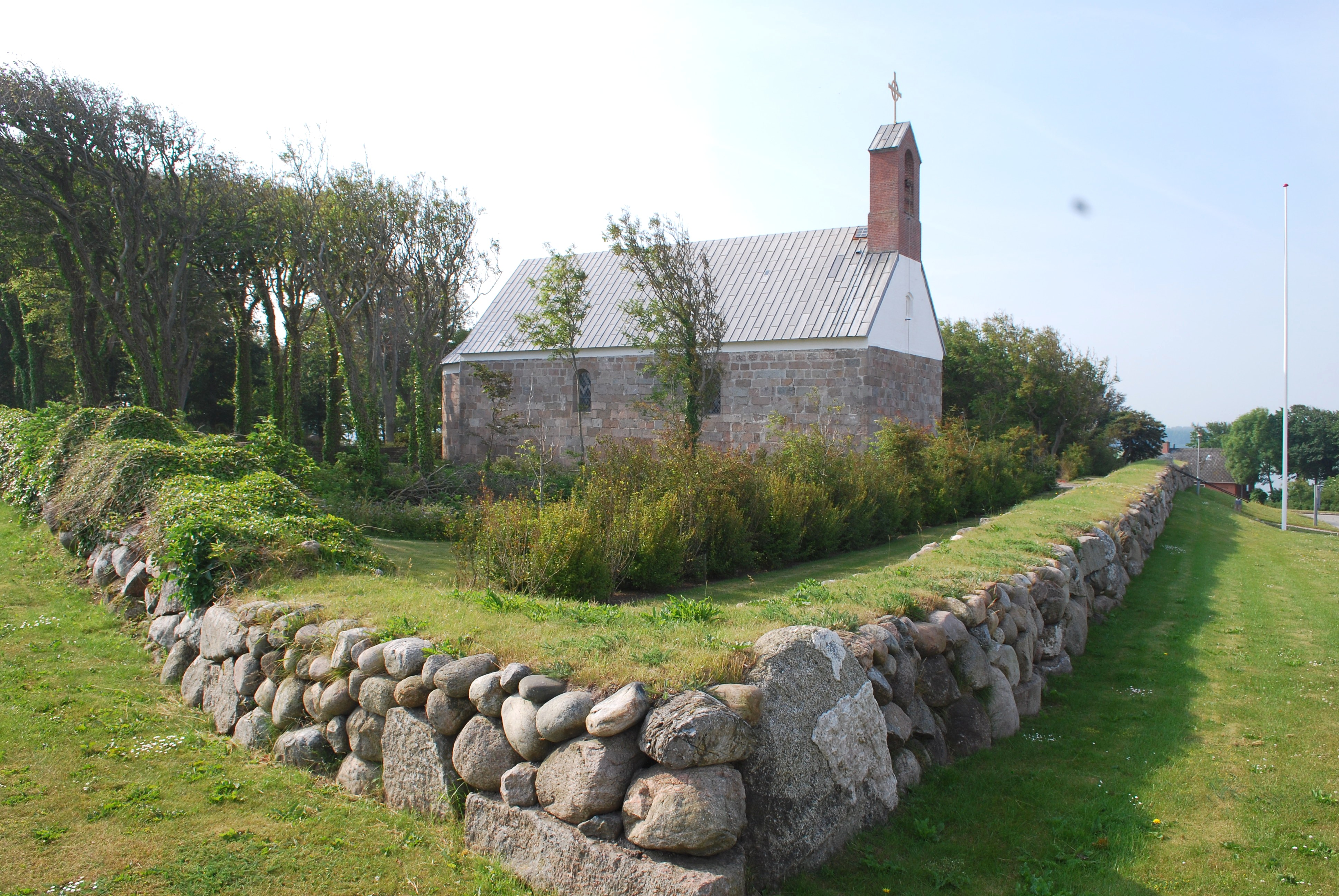 Vester Vandet Kirke, Thy, Jylland, Denmark